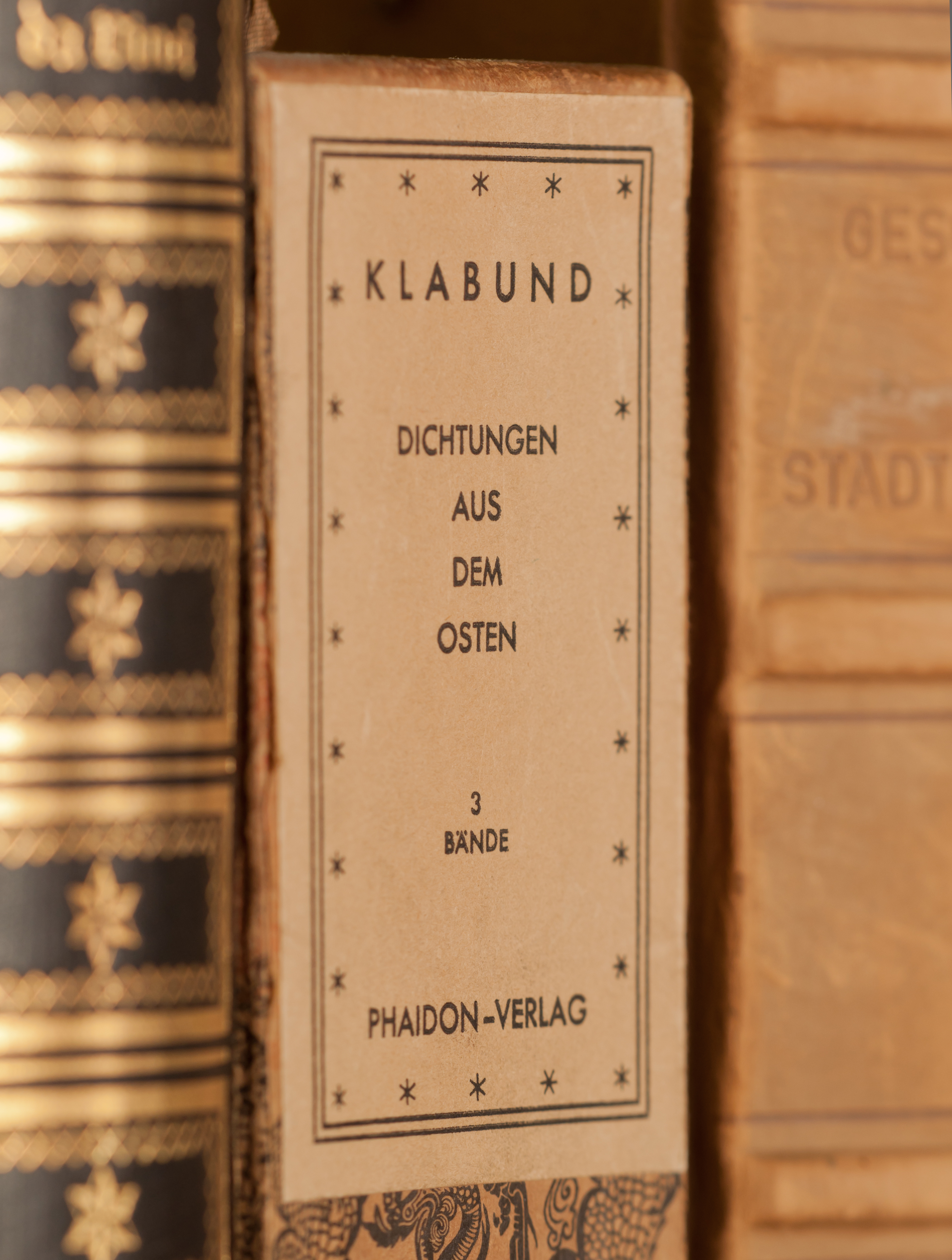 The book collection Dichtungen aus dem Osten from the German author Klabund between other old books